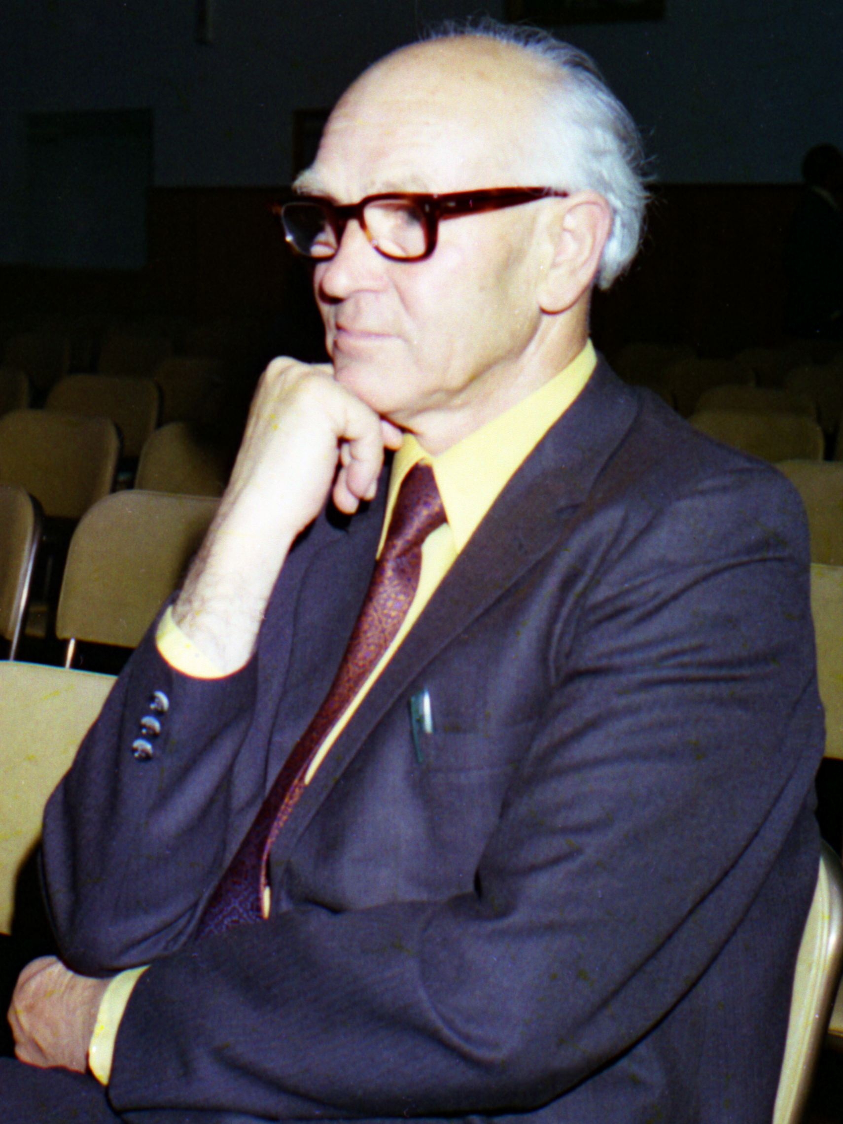 Photo of Dmytro Nytczenko, Ukrainian-Australian writer. Image is scanned from a negative from my personal collection. Photo was taken at the Ukrainian Youth Centre in Lidcombe, NSW, Australia after a concert.